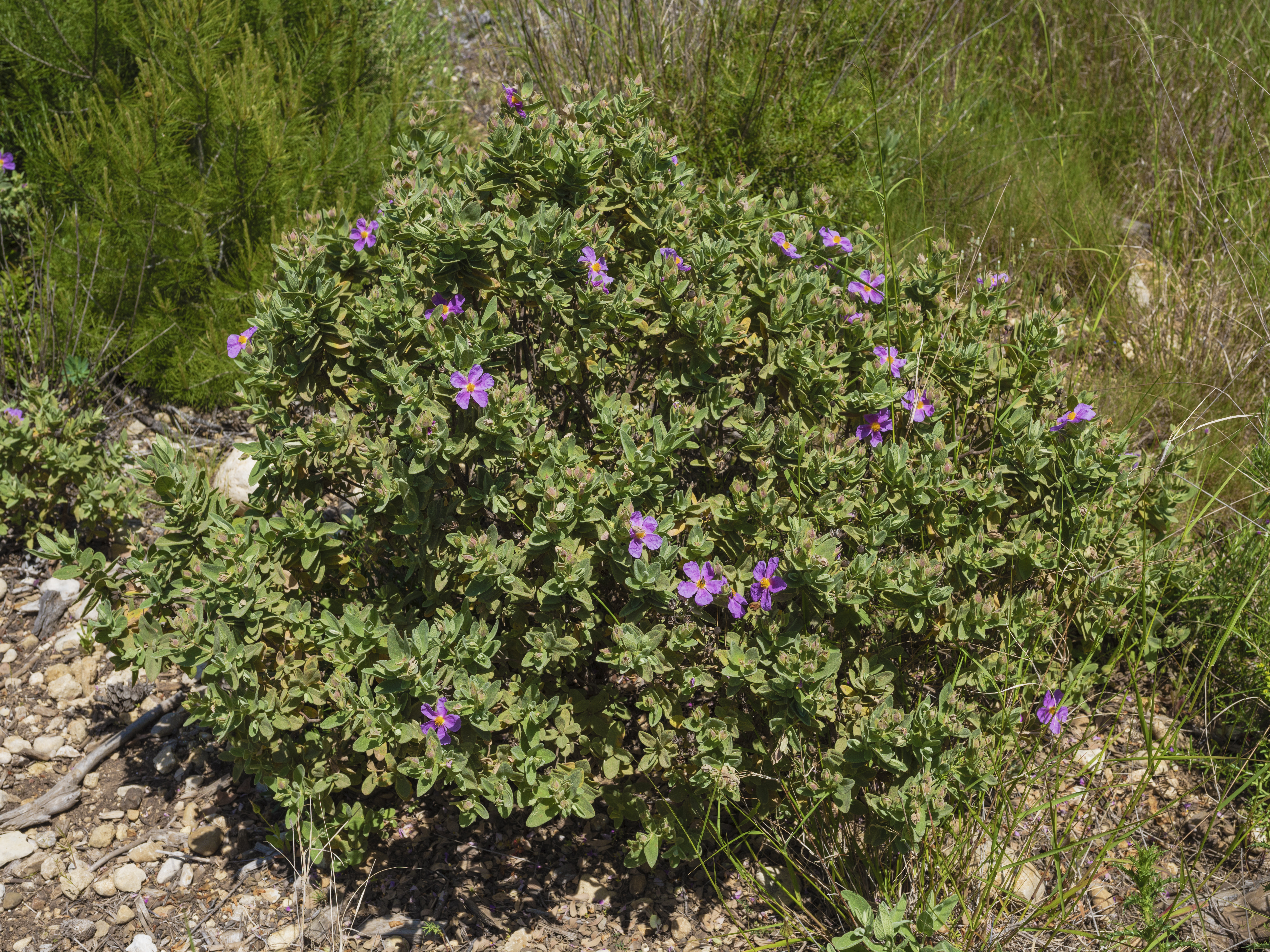 Cistus albidus. Plant with flowers.